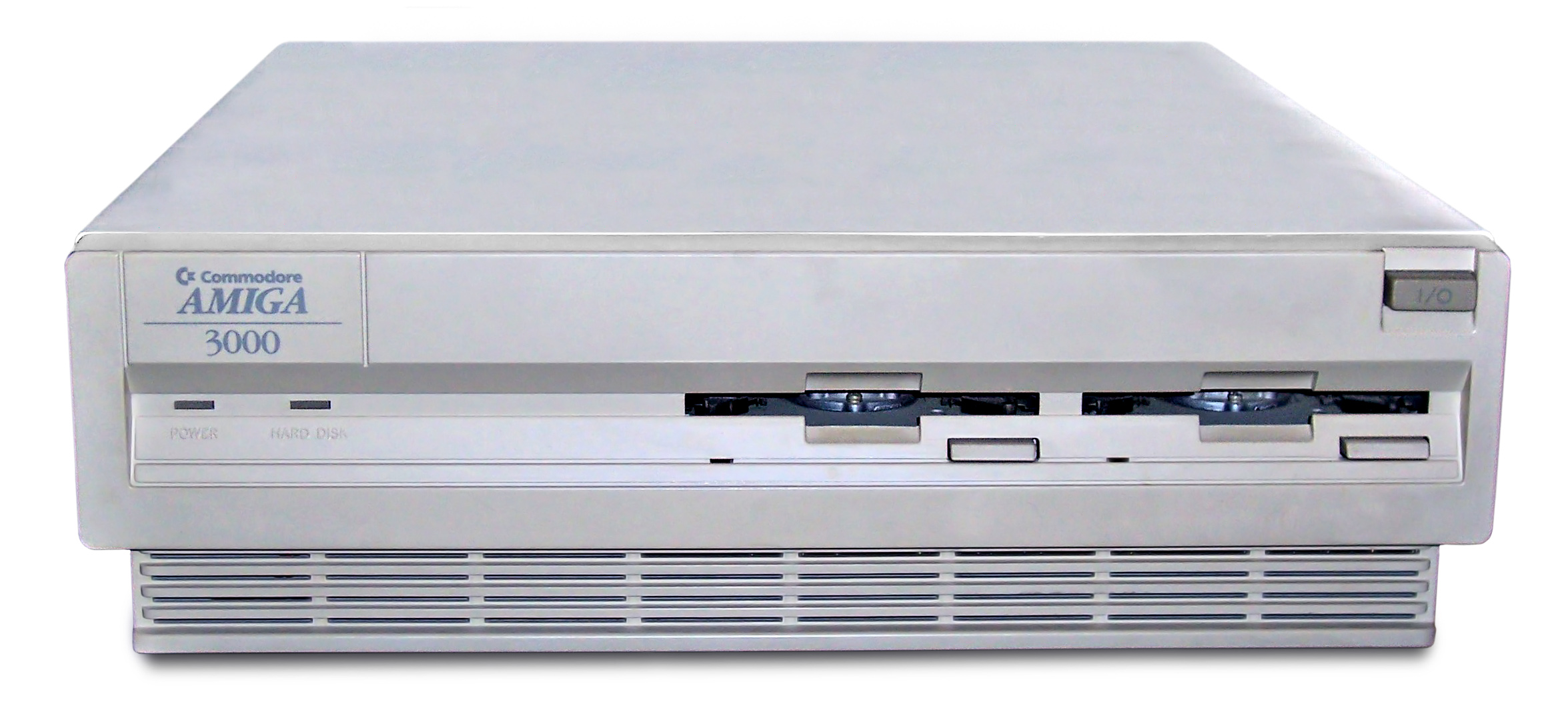 Commodore Amiga 3000 ( A3000 / A-3000) computer as seen from front